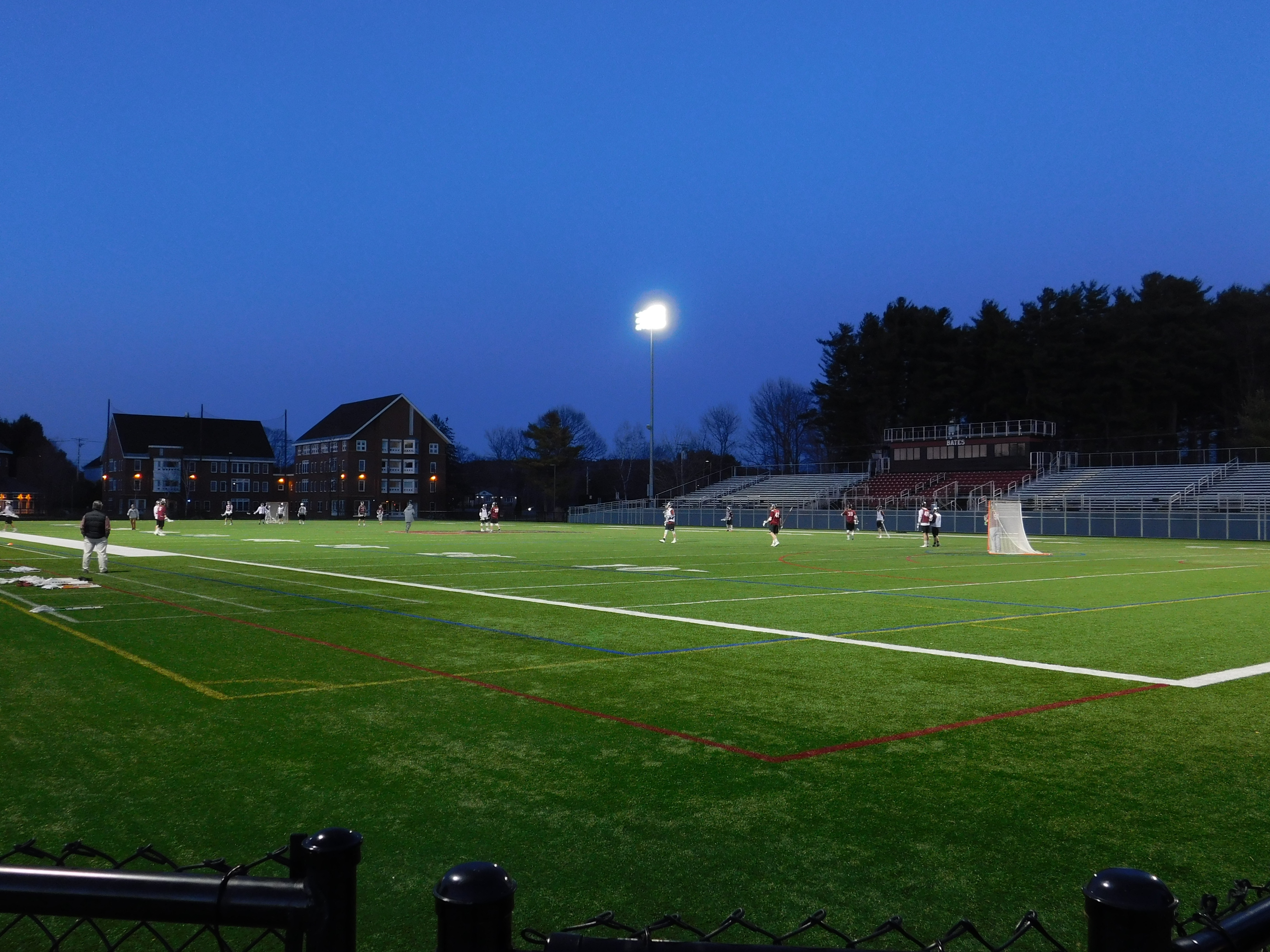 Campus of Bates College